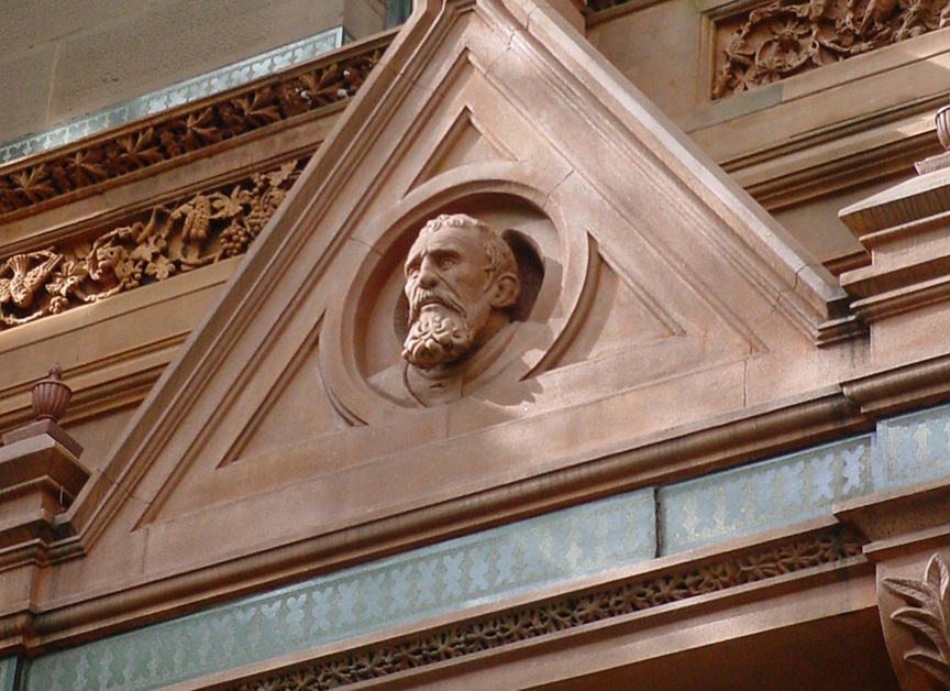 Art image the portrait of Michelangelo on the Façade of the National Arts Club in New York , sculpted by New York Artist Sergio Rossetti Morosini.